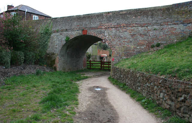 Chemistry Bridge, Whitchurch, Shropshire, over the abandoned Whitchurch Arm of the Llangollen branch of the Shropshire Union Canal. The canal now terminates just west of the footbridge. The footpath (part of the Sandstone Trail) follows the route of the abandoned canal and plans are ongoing to restore it into the centre of Whitchurch.